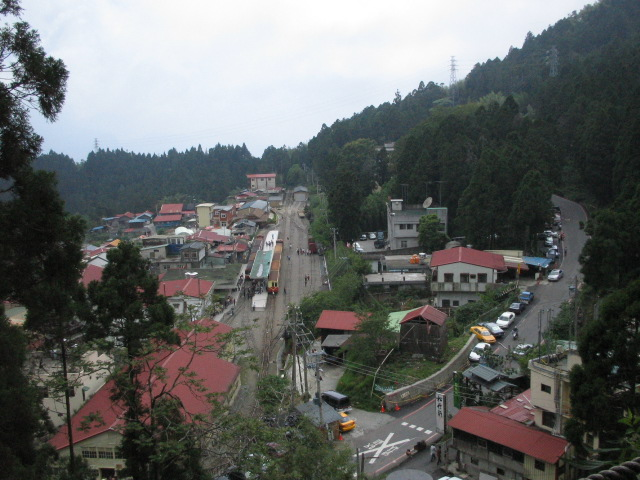 Alishan Forest Railway Fenchihu Station 阿里山森林鐵路奮起湖車站